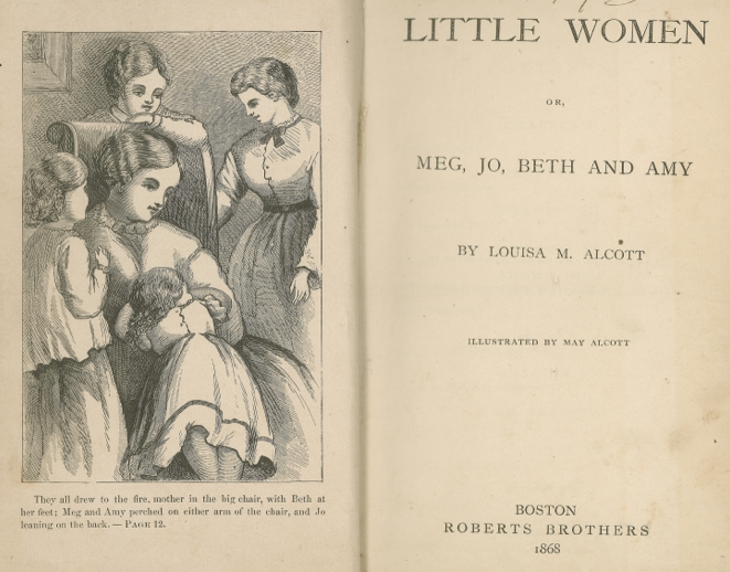 L.M. Alcott. Little Women. Boston: Roberts Bros, 1868. Illus. by May Alcott.